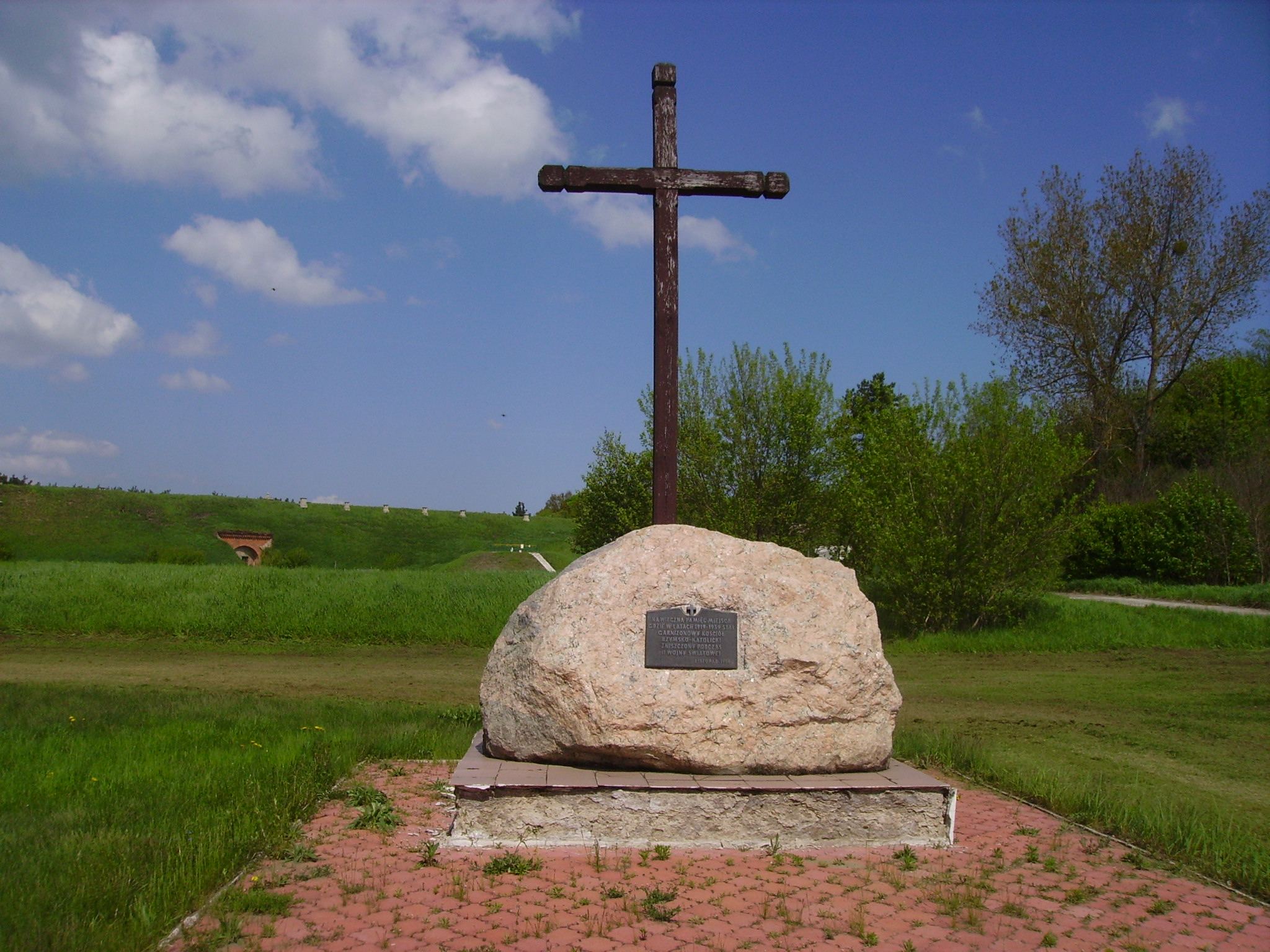 Osowiec Fortress. Fort I. Cross commemorating the place where in the years 1885-1918 the Orthodox Church, in the years 1918-1945 Catholic Church